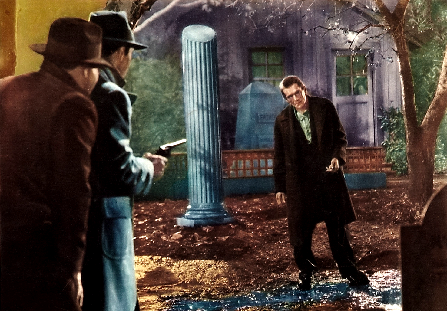 Cropped and edited lobby card for the 1936 horror movie, The Walking Dead, featuring Boris Karloff in the title role. Image is assumed to be in the public domain as no copyright notice is in evidence.